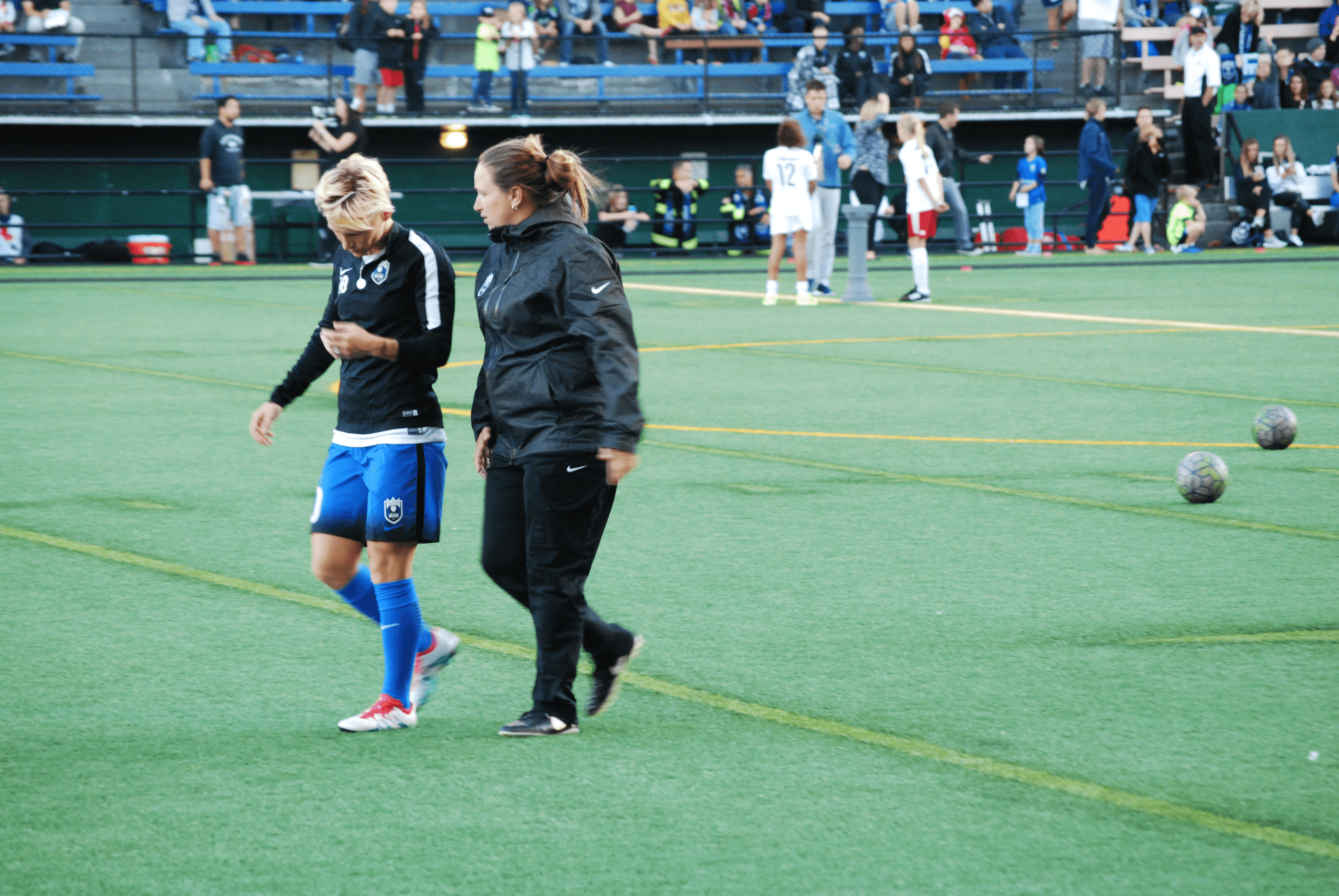 Jessica Fishlock and Laura Harvey, Seattle Reign FC vs Washington Spirit, September 11, 2016 at Memorial Stadium